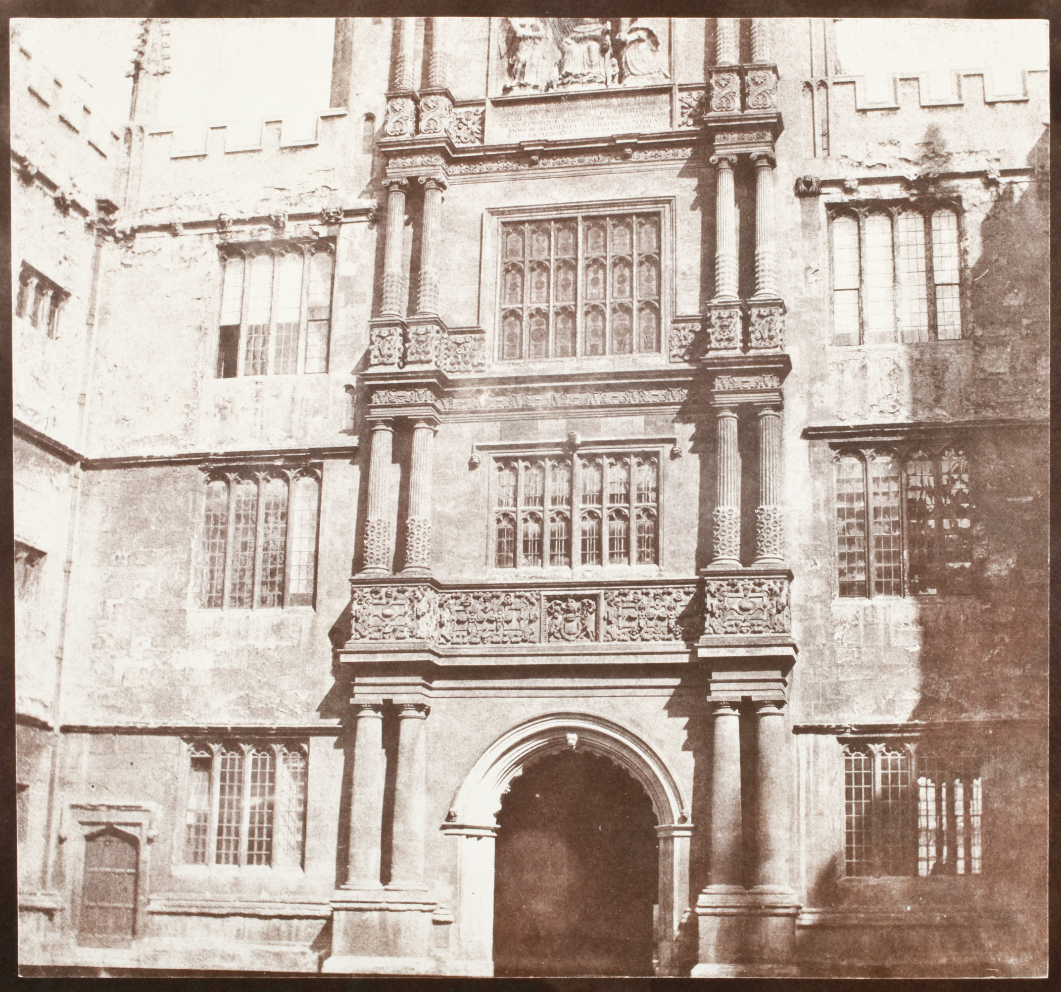 England, 1843 circa, printed 1843 circa Photographs Talbotype Image: 7 1/4 x 8 3/4; Mount: 20 x16; Mat: 20 x 16 The Marjorie and Leonard Vernon Collection, gift of The Annenberg Foundation, acquired from Carol Vernon and Robert Turbin (M.2008.40.905) Photography